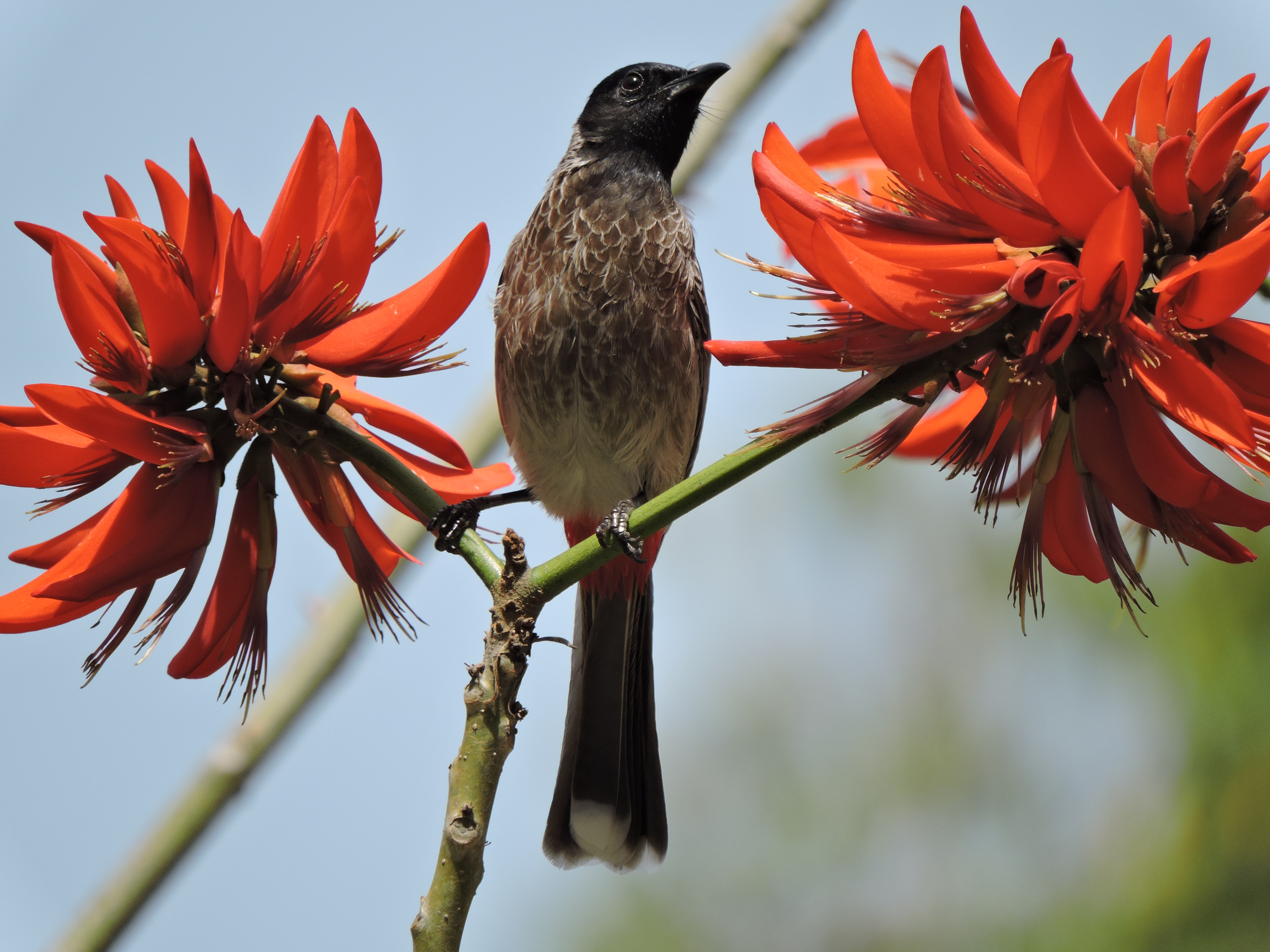 Red-vented bulbul, near Sukhna Lake ,Chandigarh, India